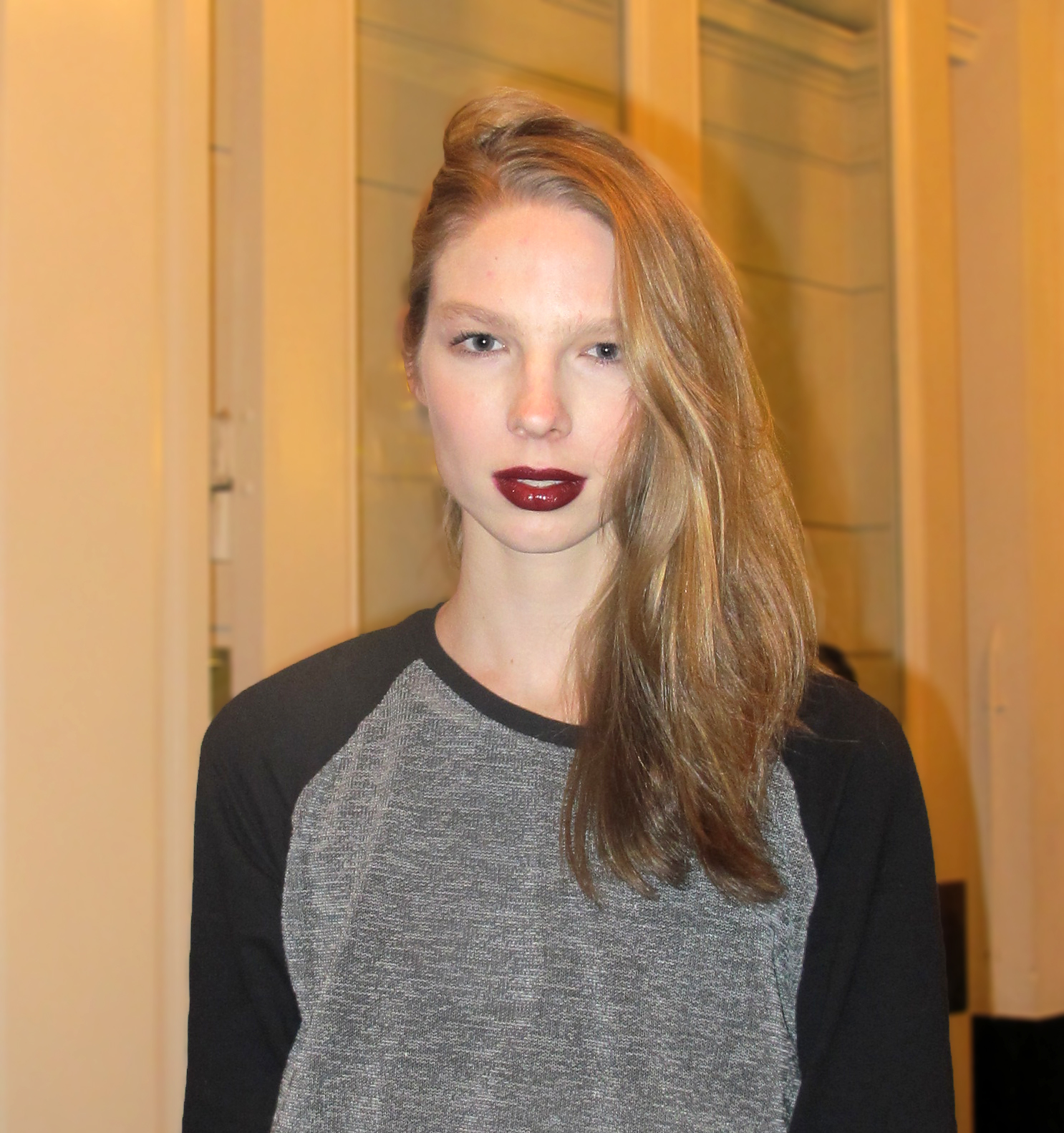 Valentijn de Hingh at TEDxAmsterdam where she talked about being transgender